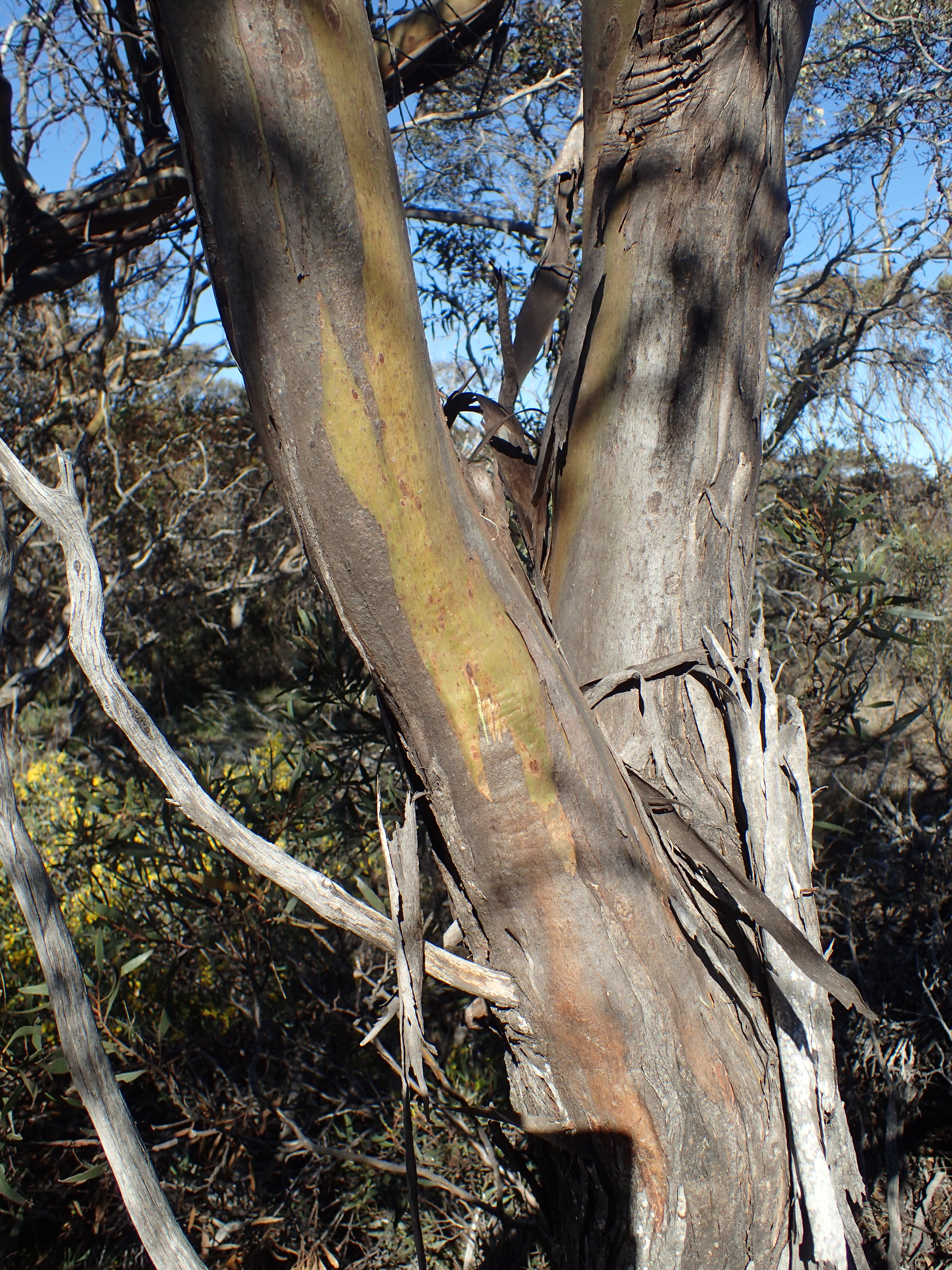 Bark on the trunk of Eucalyptus annulata